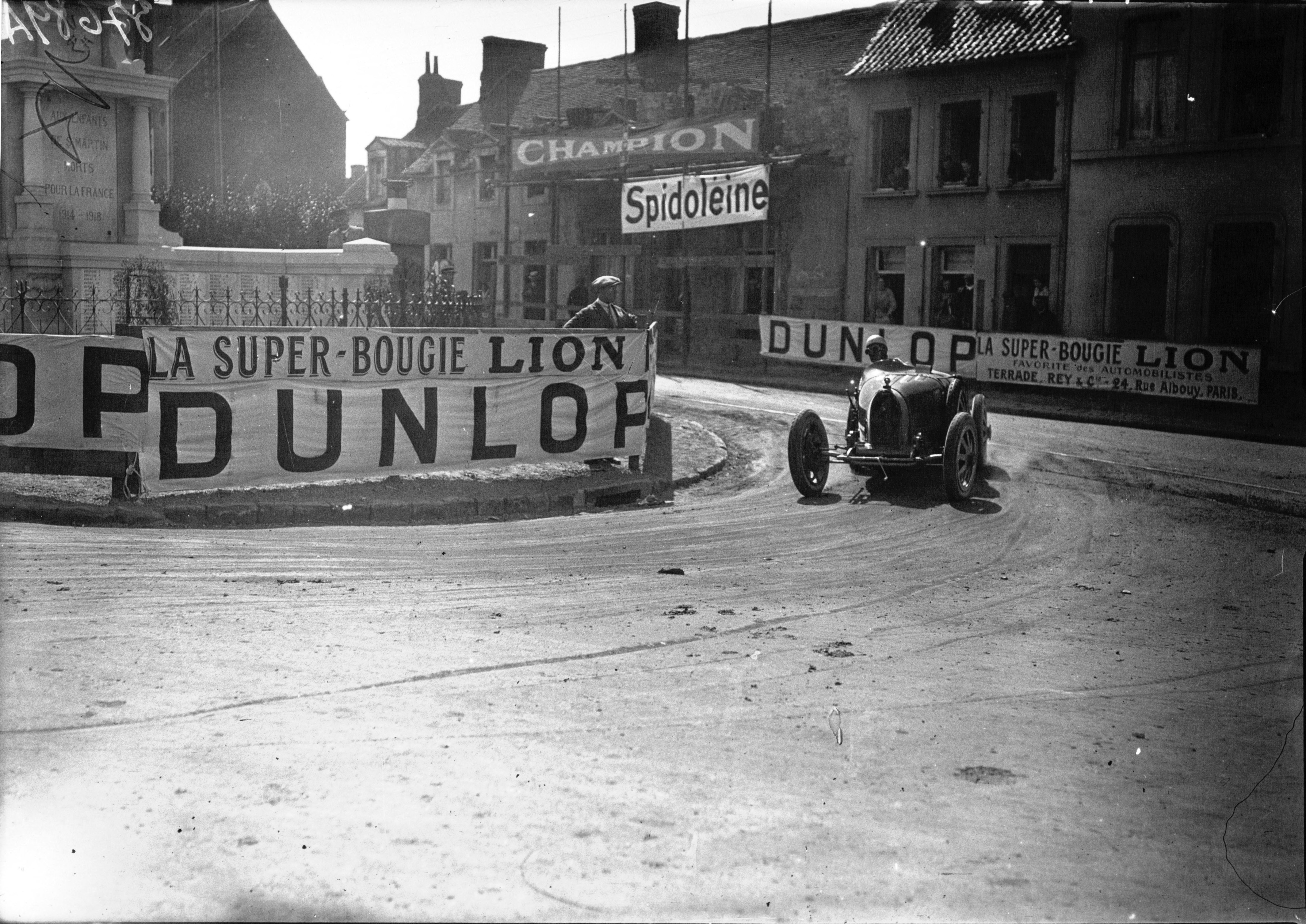 George Eyston at the 1926 Boulogne Grand Prix.